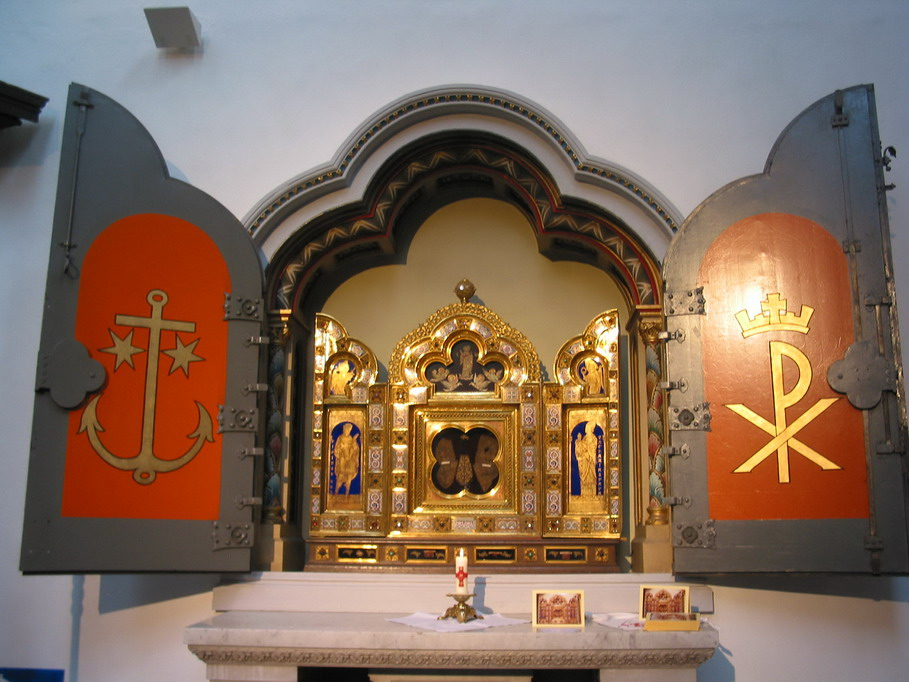 Reliquiar of the holy three physicians (19. Century, original equipment) Author This picture was made available kindly by Manfred Nierstenhöfer - for Wikipedia* Licence GNU FDL and CC-by-SA